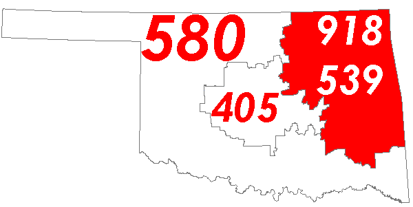 Area code location for 918/539